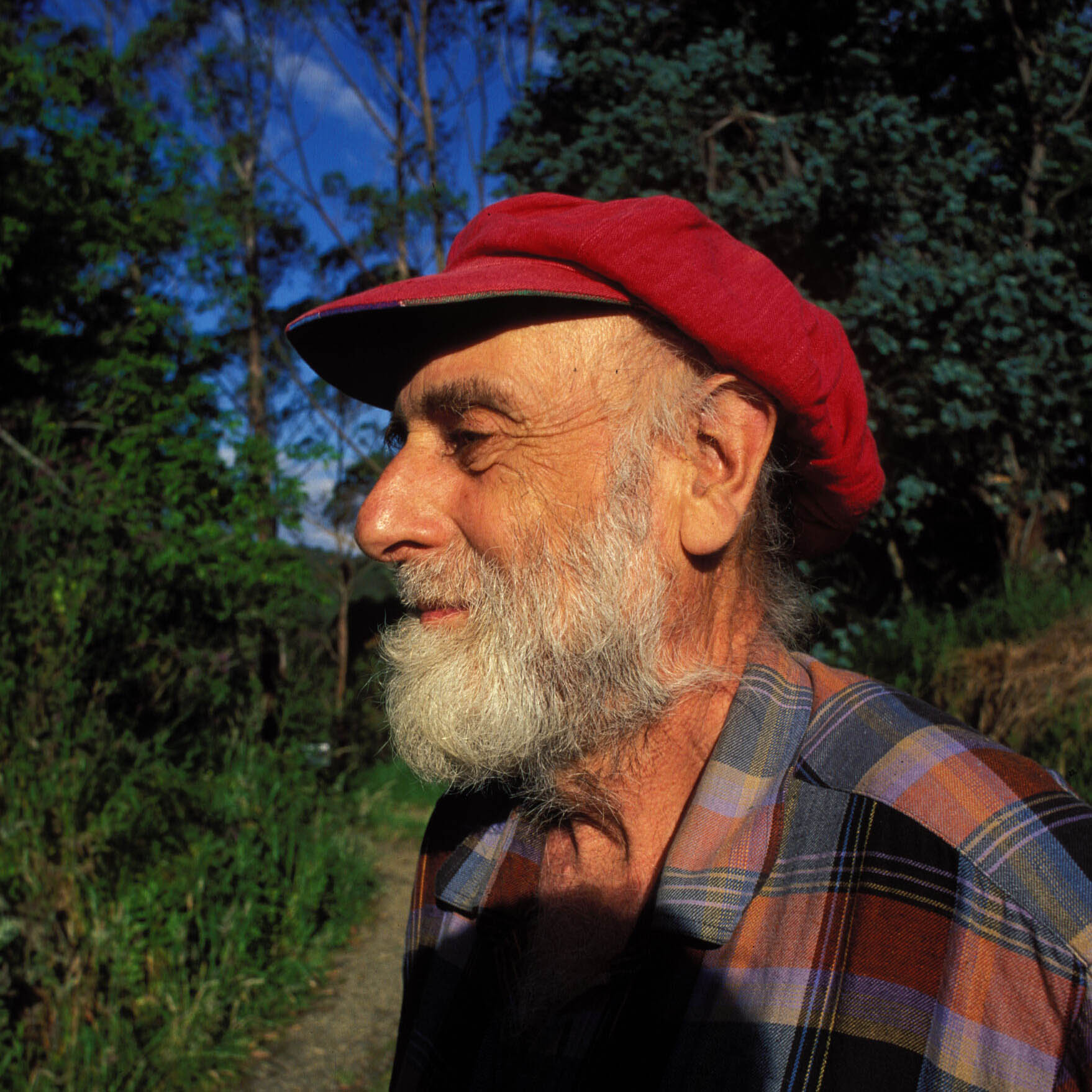 Friedensreich Hundertwasser on his ground in New Zealand in 1998.